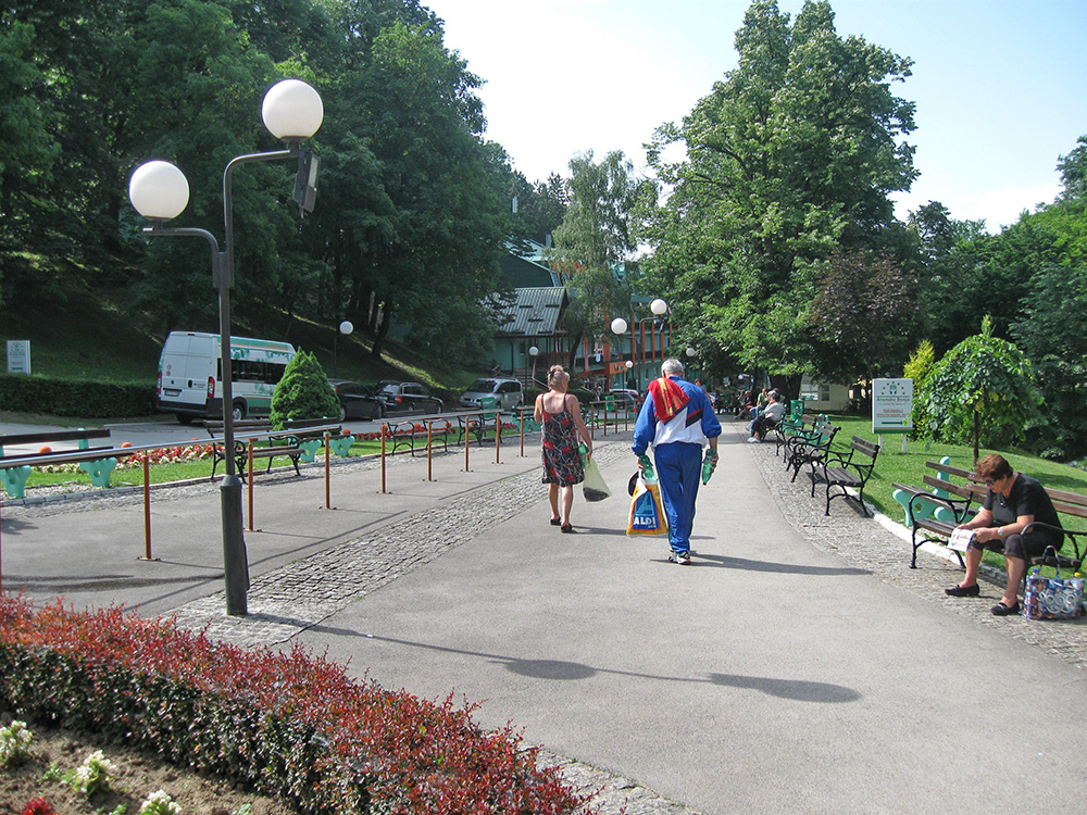 Panoramic scenes of the Pester plateau, karst region in southwestern Serbia. It situated in the area of Raska. The most part of Pešter is located in the municipality of Sjenica. The relief of Pester Plateau is characterized by low, hilly terrain, streams